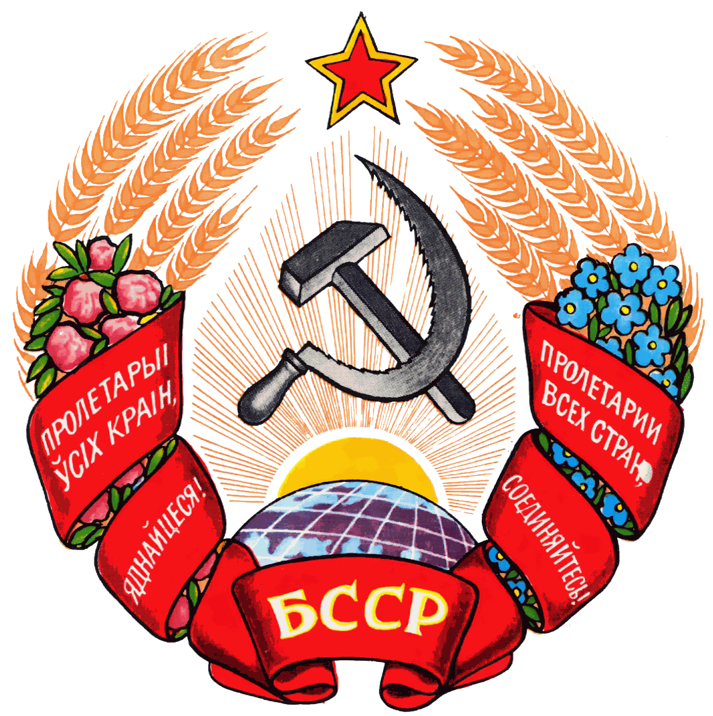 Coat_of_arms_of_Belorussian_SSR.png